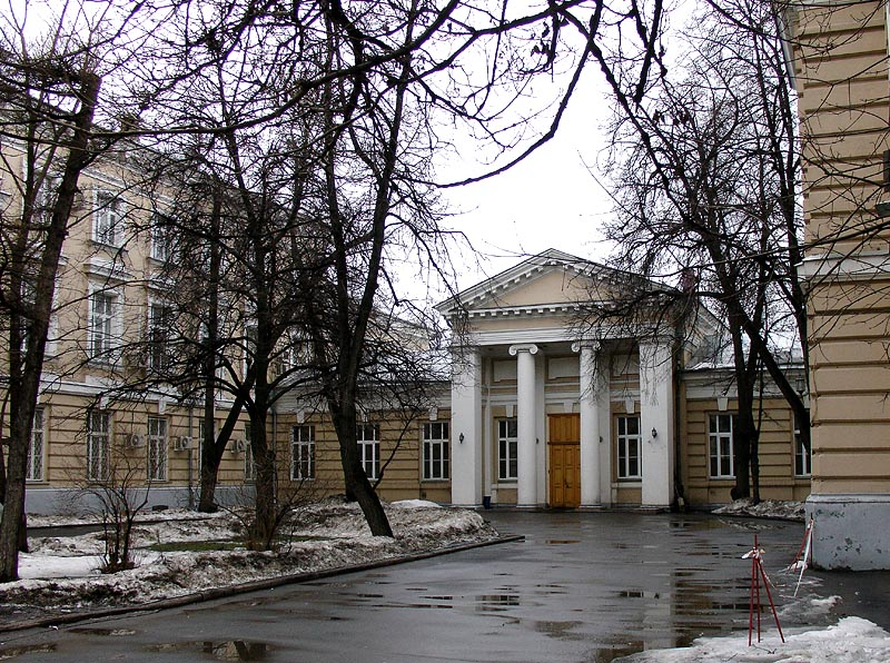 Devichye Pole, Moscow, Medical Campus - Clinics